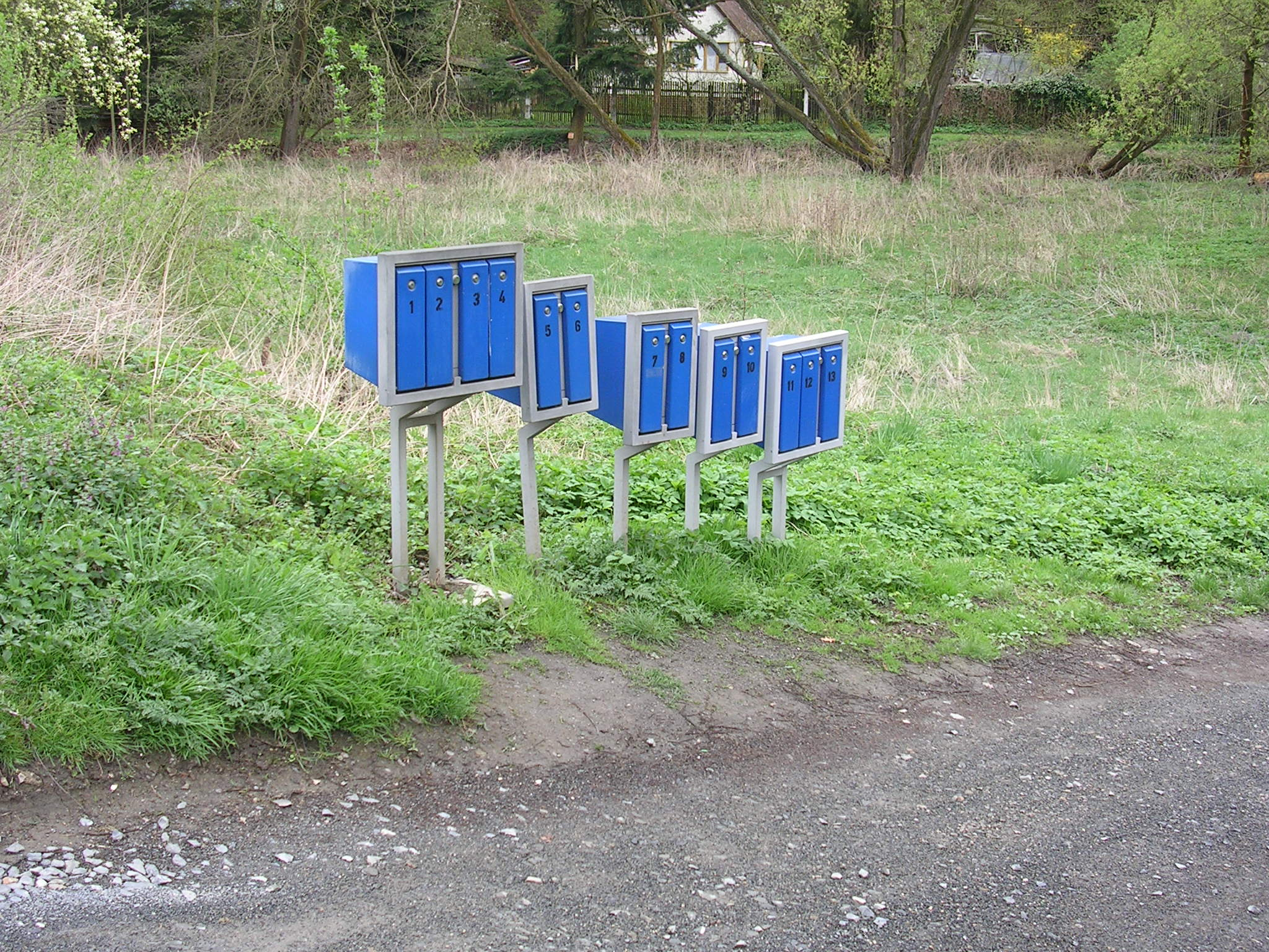 Čisovice, the Czech Republic. Mailboxes near train stop in Bojov.